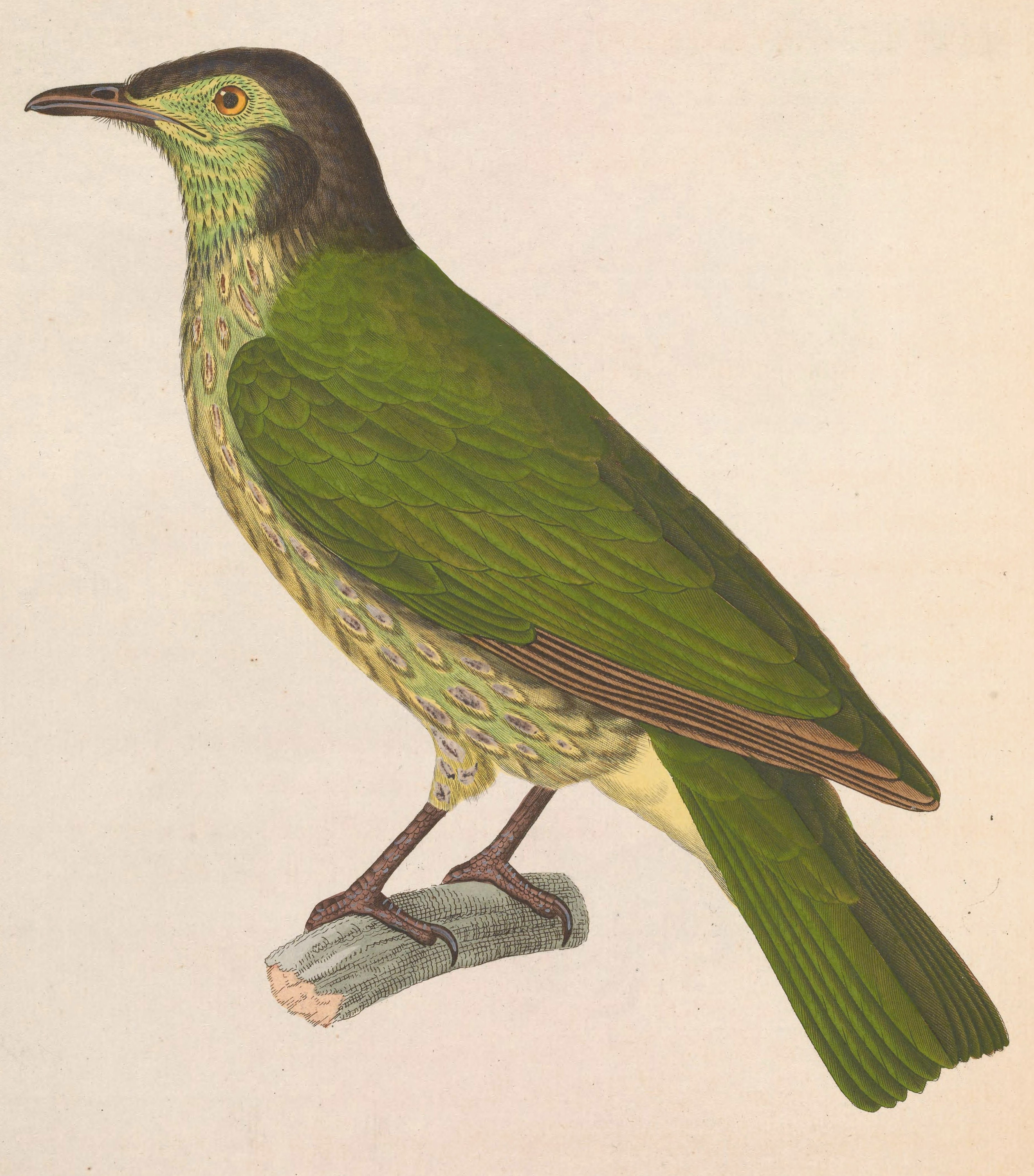 « Casmarhynchos nudicollis » = Procnias nudicollis (Bare-throated Bellbird) - female